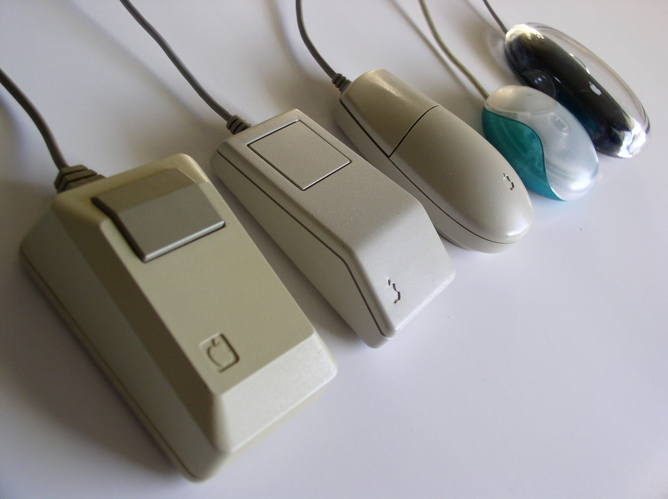 Apple Mice : From left to right : Macintosh Mouse Apple Desktop Bus Mouse Apple Desktop Bus Mouse II USB Mouse Pro Mouse